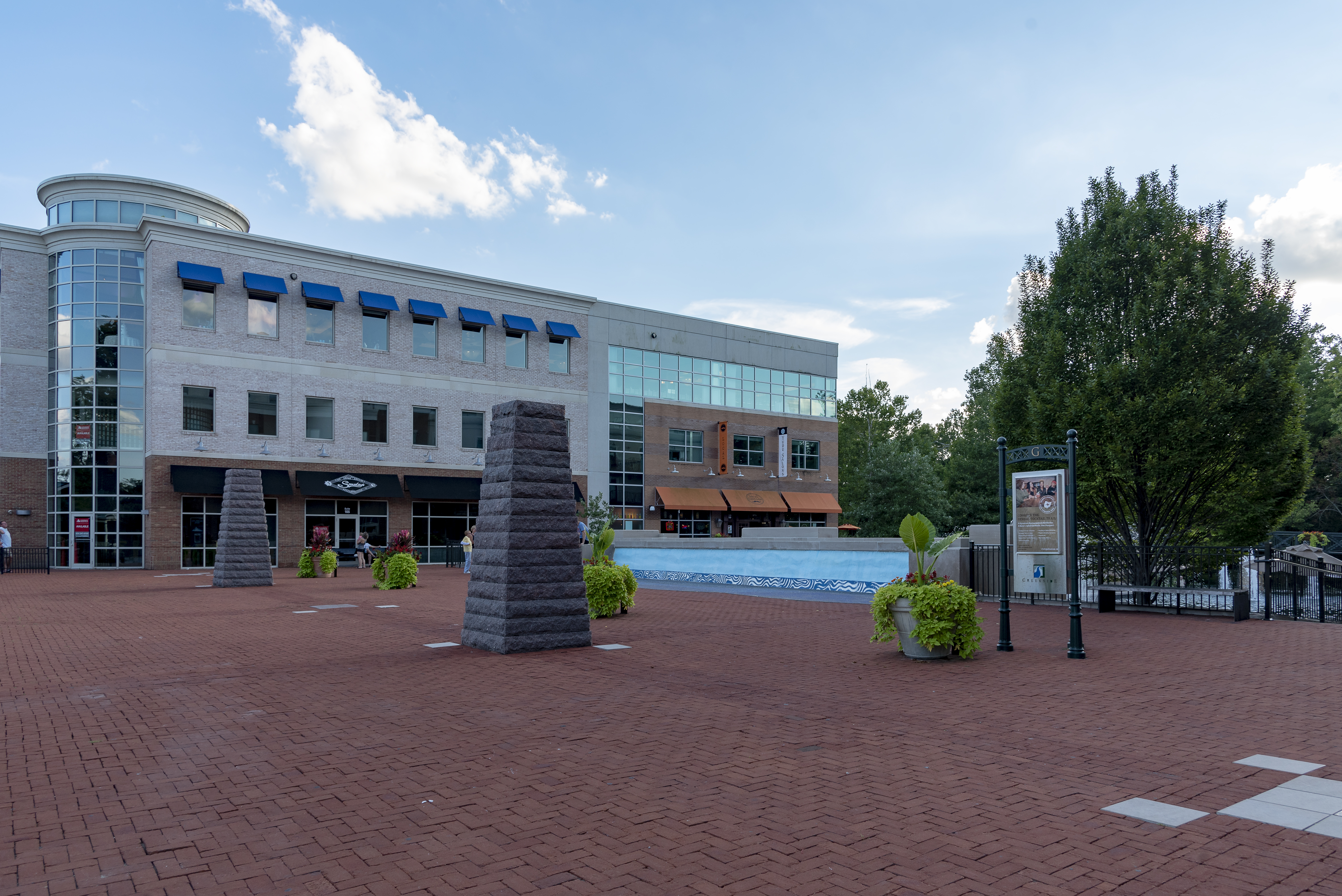 A view of the entrance from Mill street to Creekside Gahanna looking at the plaza from the northeast in Gahanna, Ohio.